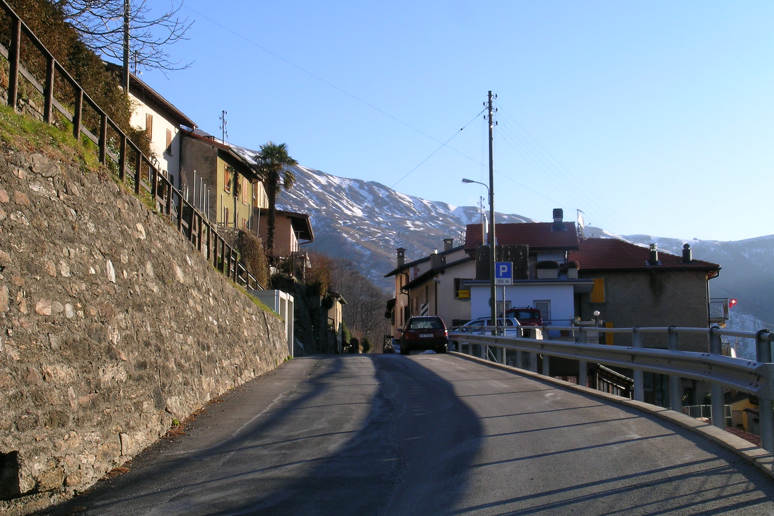 Scareglia village in the municipality of Valcolla in Ticino, Switzerland